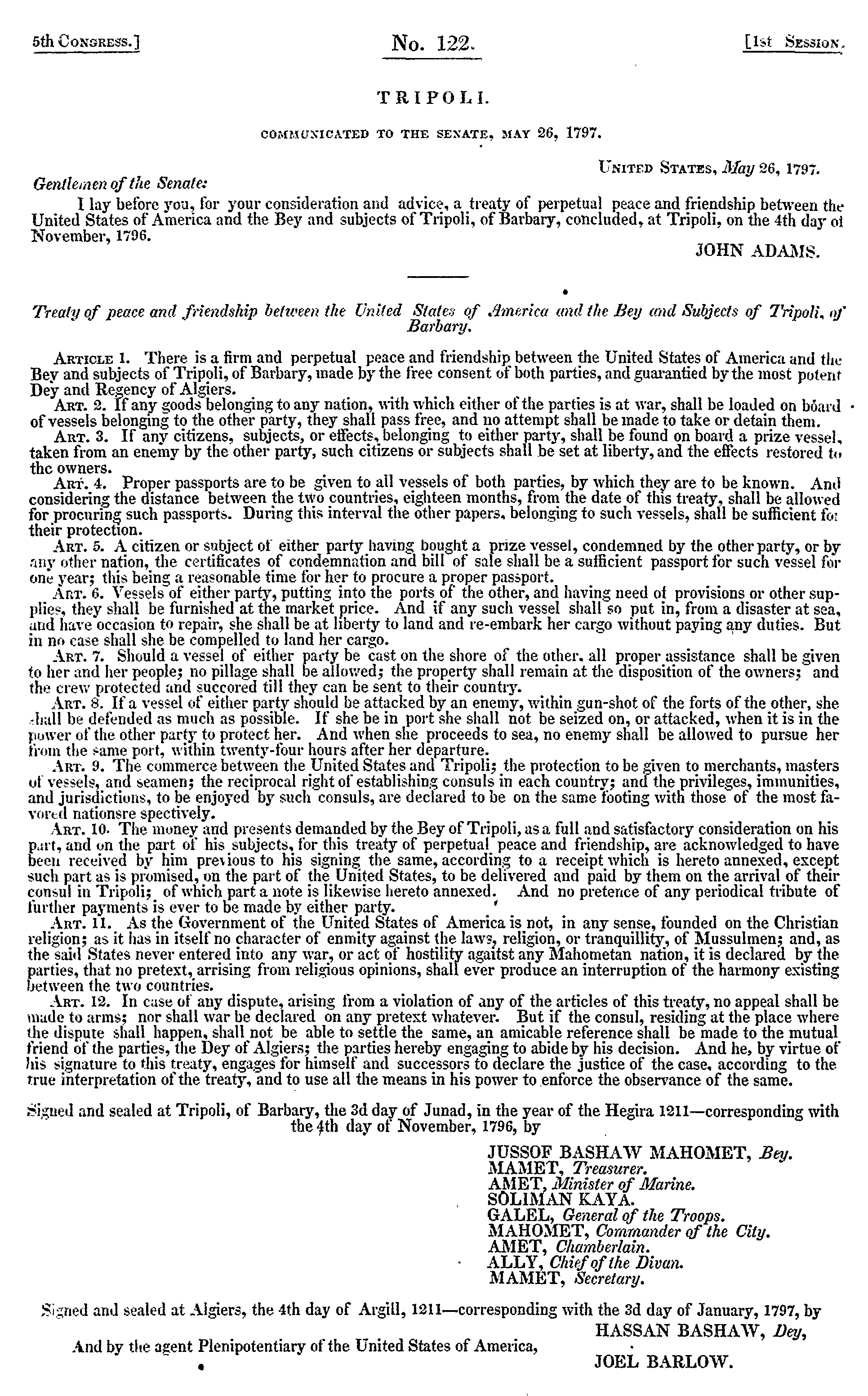 This image is an edited version of scans of two pages of a reprint of the Treaty of Tripoli as communicated to Congress in 1797. This reprint was sanctioned by Congress on March 2, 1831 and printed the following year by Gales & Seaton. It is a part of the American State Papers publication, ISBN 1-57588-404-6, Class I, Foreign Relations, Volume II, pages 18 & 19. The edits consist of joining the text together from two separate pages and cropping.